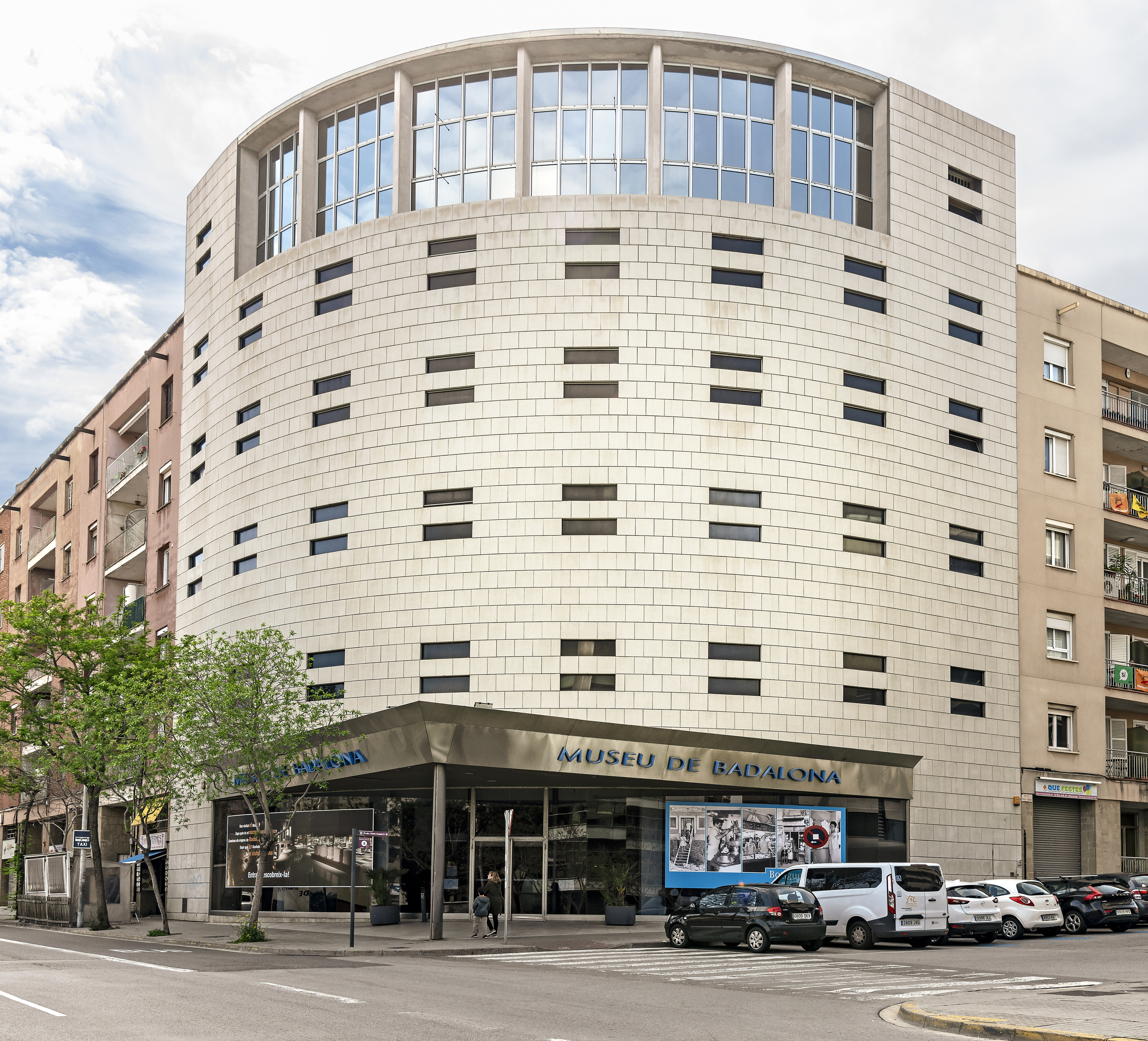 Building of the Badalona Museum. The Museum is dedicated to the history of Badalona; founded in 1954 and located in the Plaza Assembly of Catalonia in Badalona.